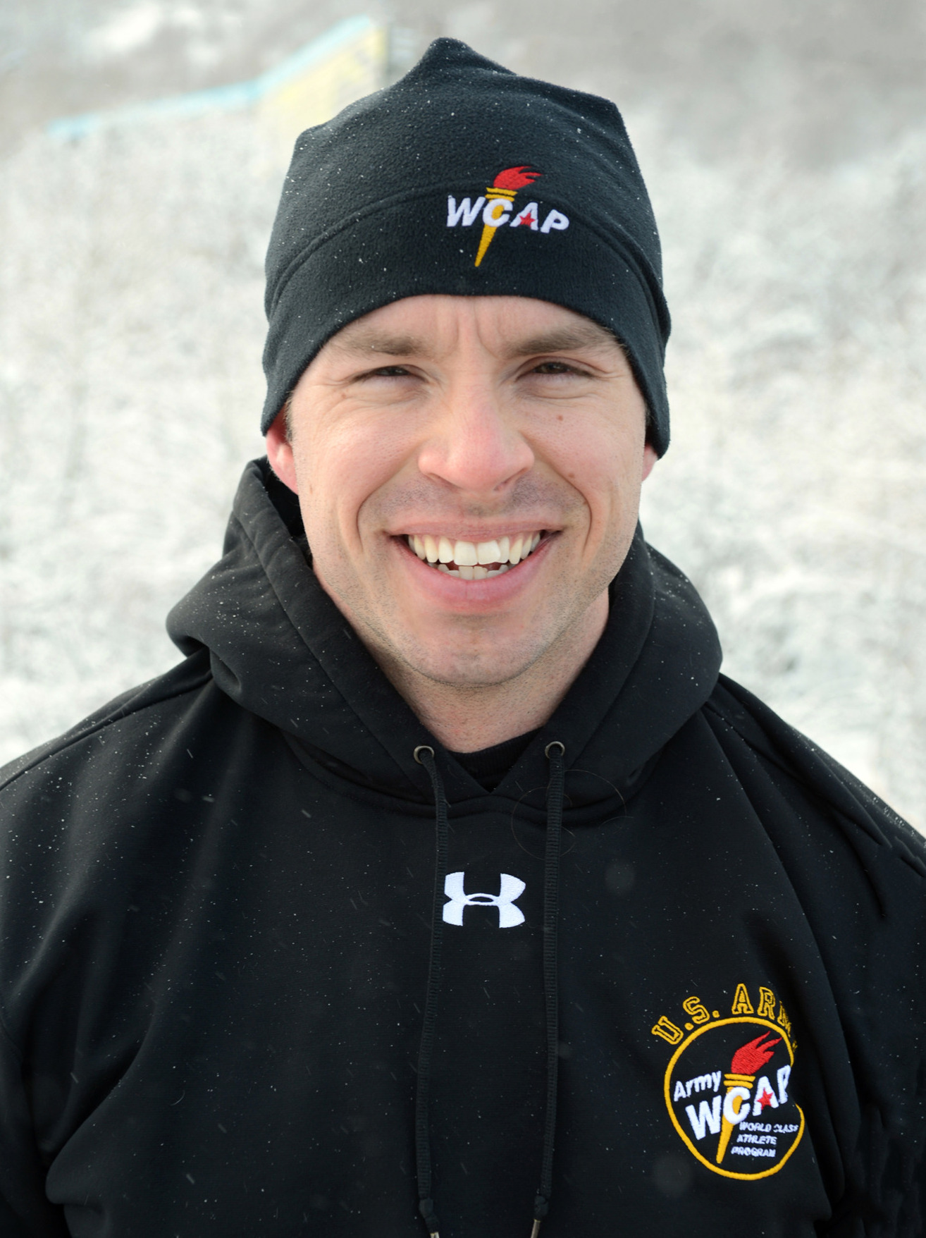 U.S. Army World Class Athlete Program bobsledder Sgt. Dallas Robinson will compete for Team USA at the 2014 Olympic Winter Games in Sochi, Russia. He will be aboard USA-2 in the four-man event with WCAP teammates Sgt. Nick Cunningham, Sgt. Justin Olsen and civilian Johnny Quinn. U.S. Army photo by Tim Hipps, IMCOM G9 MWR Public Affairs